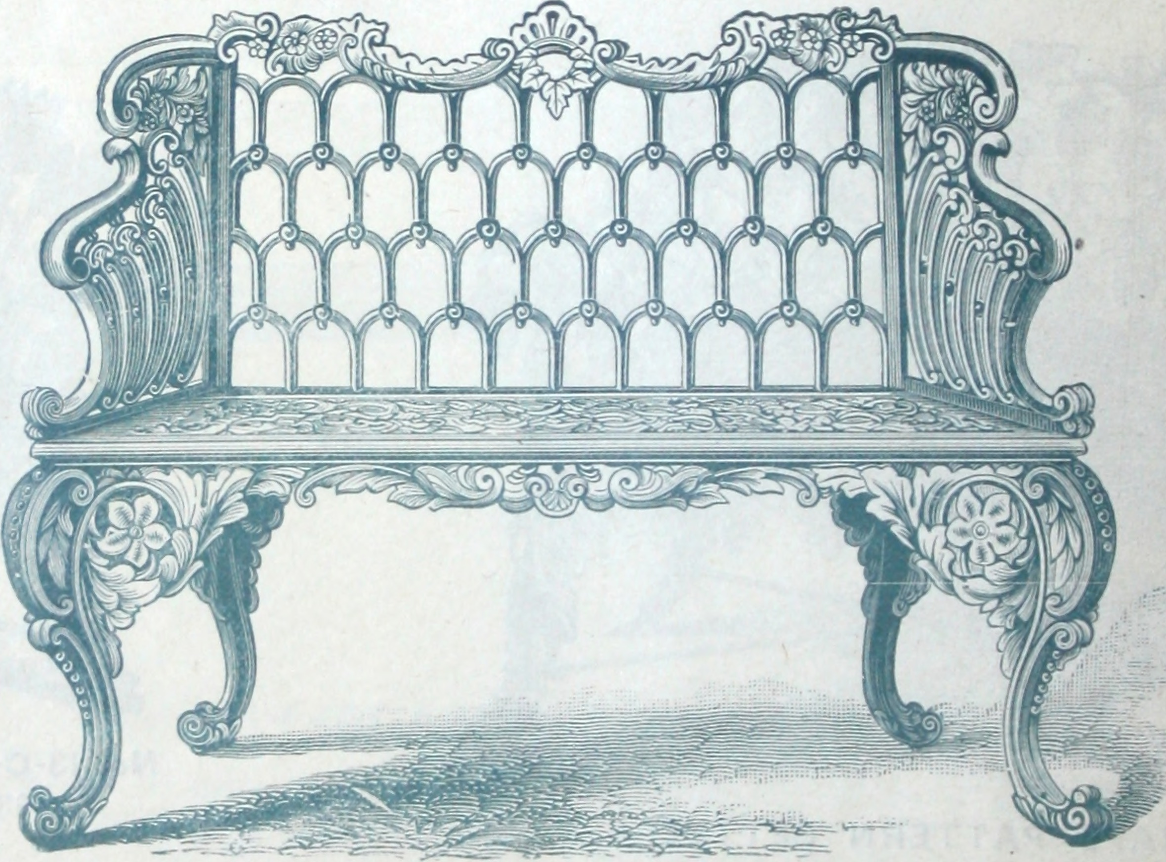 Title: Catalogue of vases, settees, fountains and other lawn furniture Year: 1904 (1900s) Authors: E. T. Barnum Wire and Iron Works Subjects: Fountains Garden Furniture Vases Division 12 Furnishings Metal Furnishings Exterior Furnishings Landscape Furniture Publisher: E. T. Barnum Wire and Iron Works Text Appearing Before Image: No. 31 -B—Ornamental Lawn Chair.To match No. 30-B Settee. Painted green and relieved withbronze, all complete .each, $6.S Text Appearing After Image: No. 26«C-Gothic Settee, Painted Green and relieved with Bronze. About 3 feet 2 inches long, and intended to seat three people each. $12.00 E. T. BARNUM WIRE AND IRON WORKS, DETROIT, MICH. 23 m Chair.rttee. I with.eich, $6.5